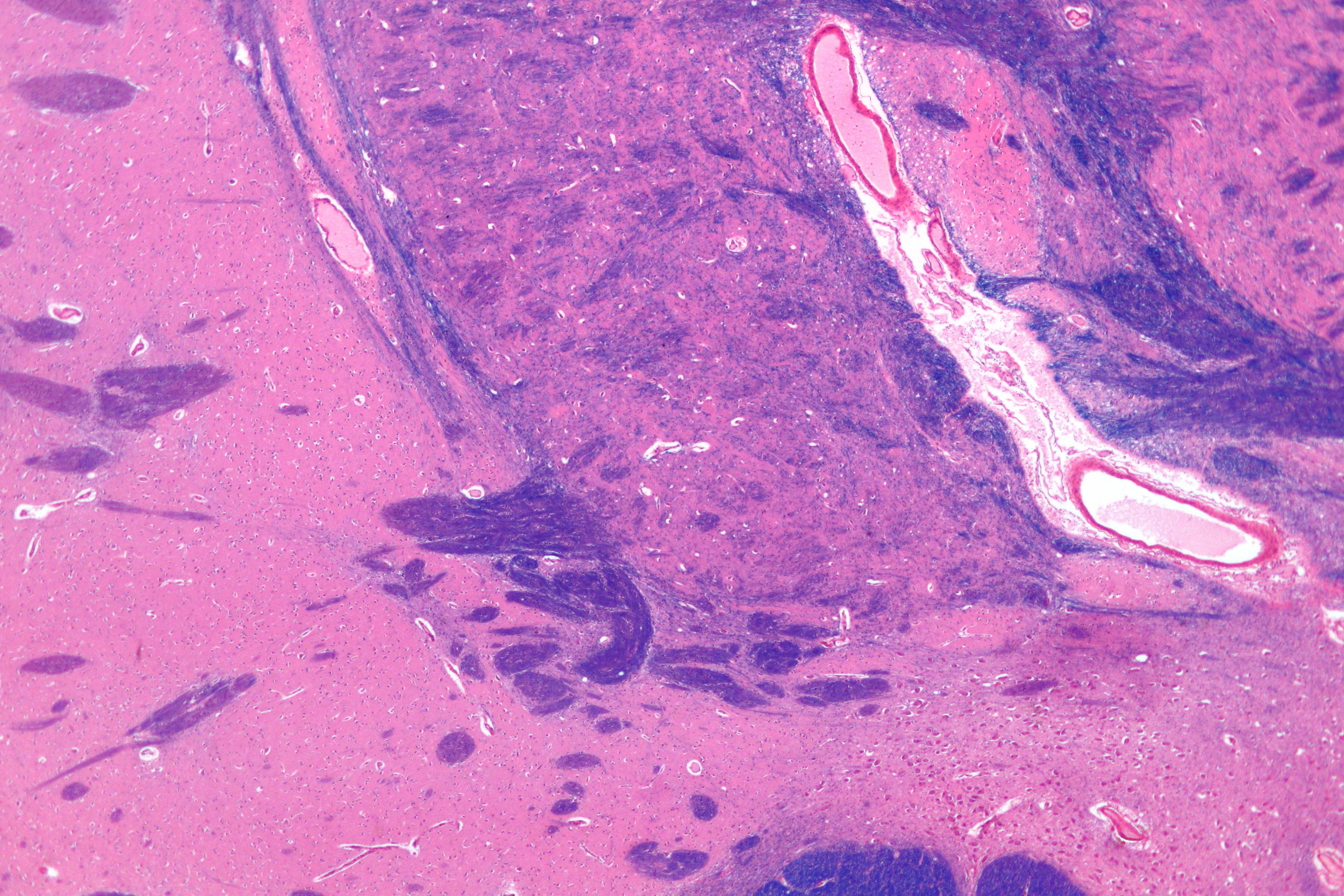 Very low magnification micrograph or the nucleus basalis of Meynert, also nucleus basalis. LFB-HE stain. The very low and low magnification section shows the putamen (top-left) and globus pallidus (top-right). See also Substantia innominata. Related images Very low mag. Very low mag. Low mag. Intermed. mag. High mag. Very high mag.